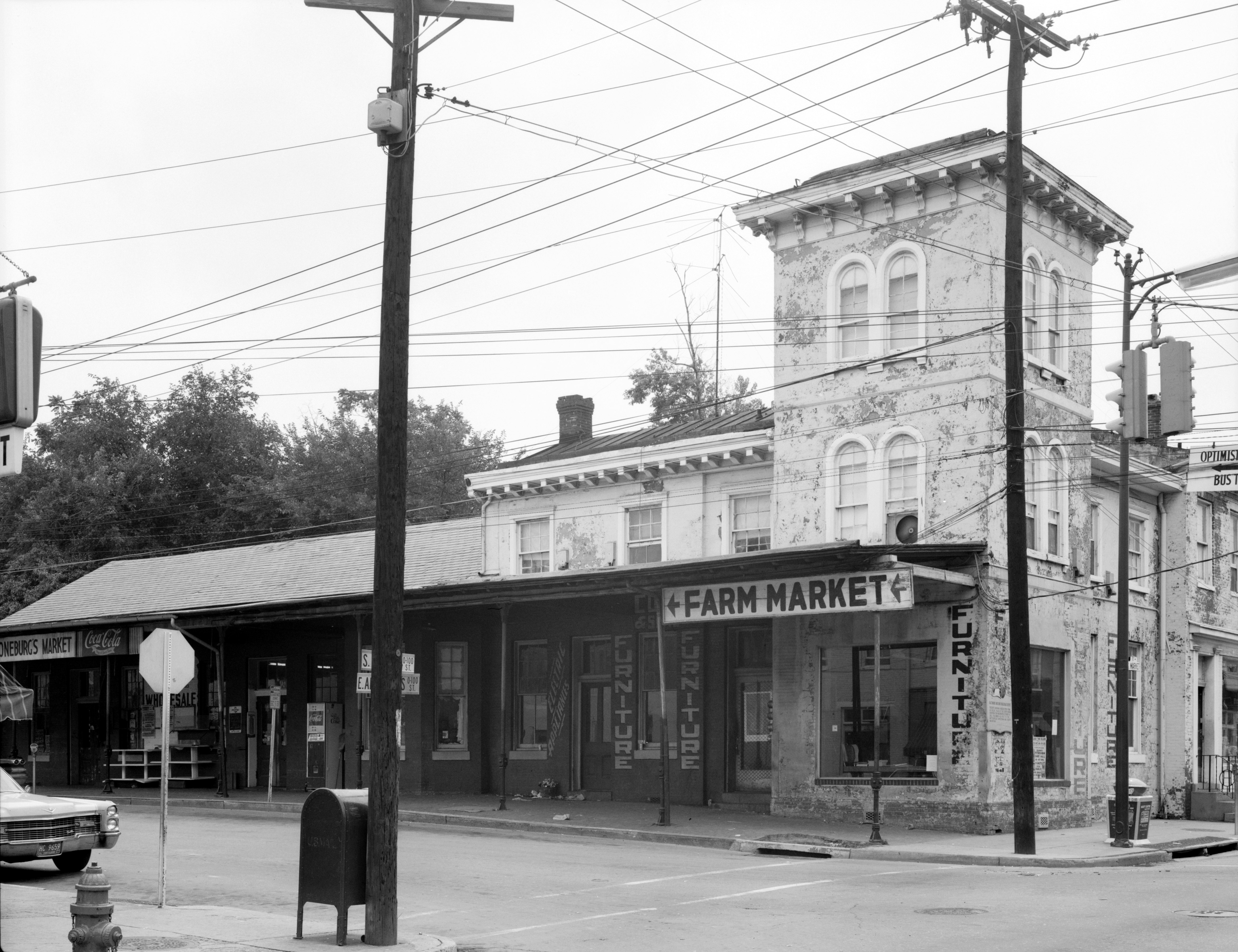 View of Frederick B&O railroad station, East All Saints and Market Streets, Frederick, Maryland. Built 1855, modified 1895 and 1921. Operated as a railroad depot until 1948.